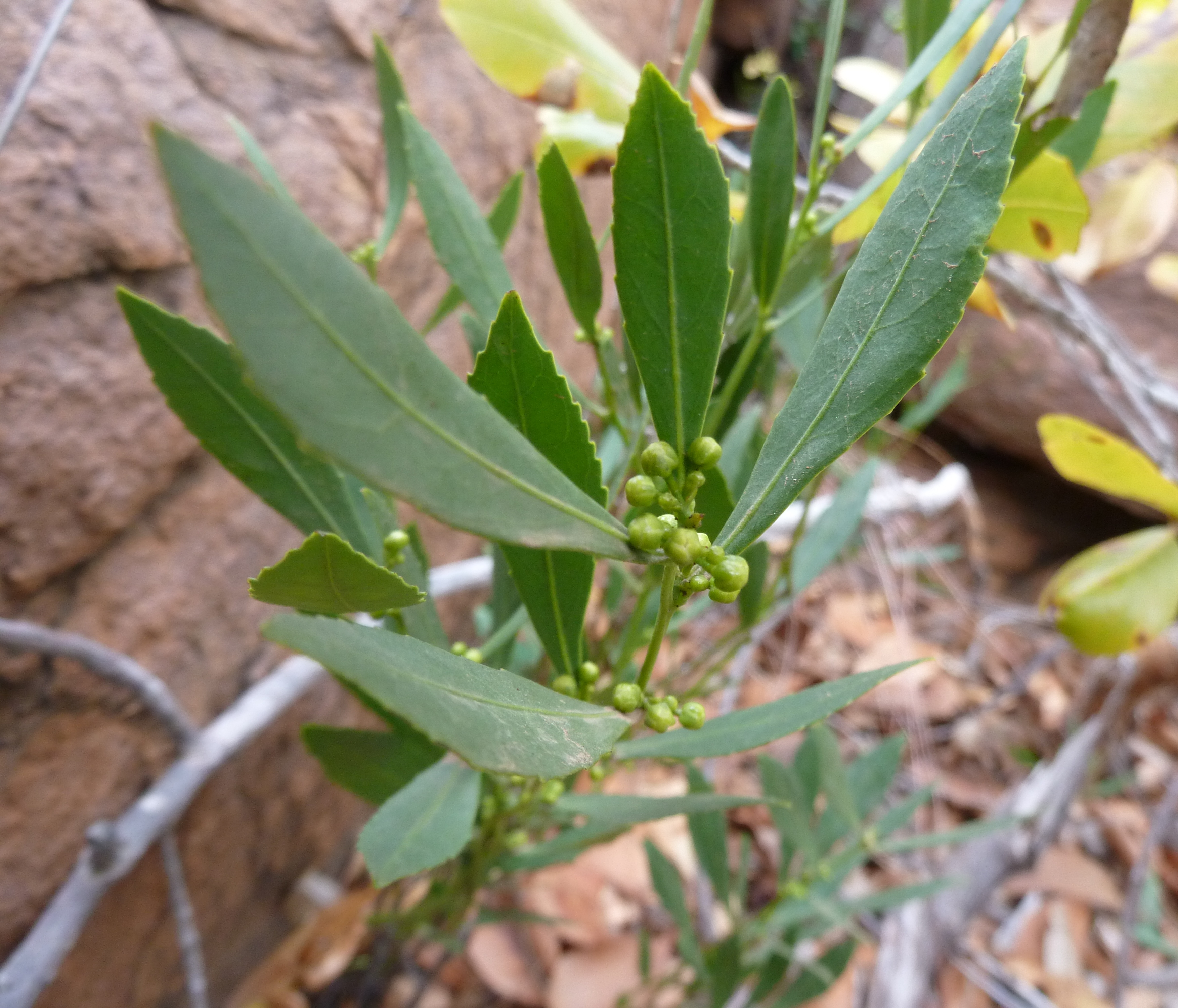 Salacia rehmannii suffrutex at Little Eden in De Tweedespruit conservancy, Gauteng